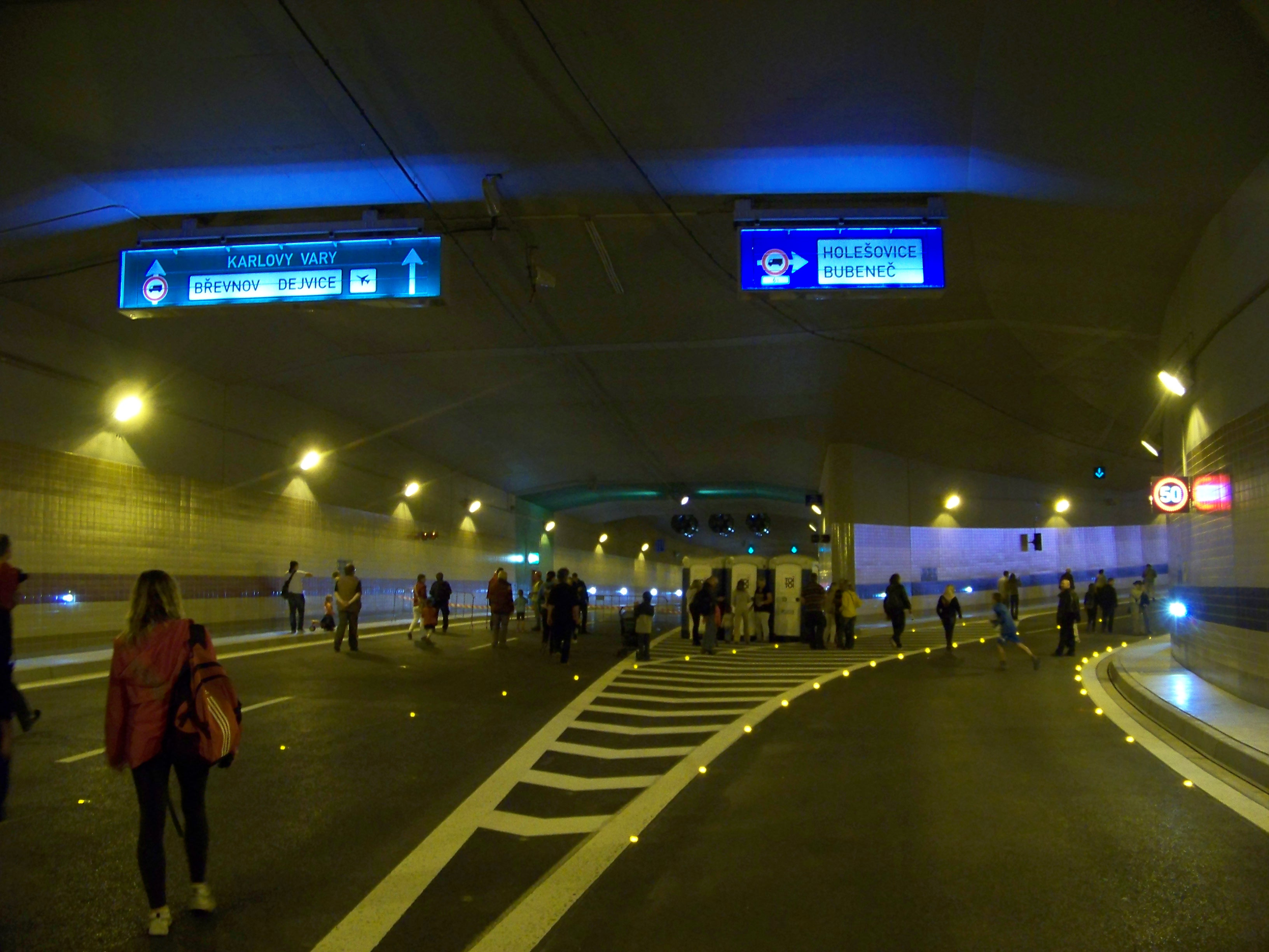 Prague-Bubeneč, Czech Republic. Open doors day of Bubenečský tunel.